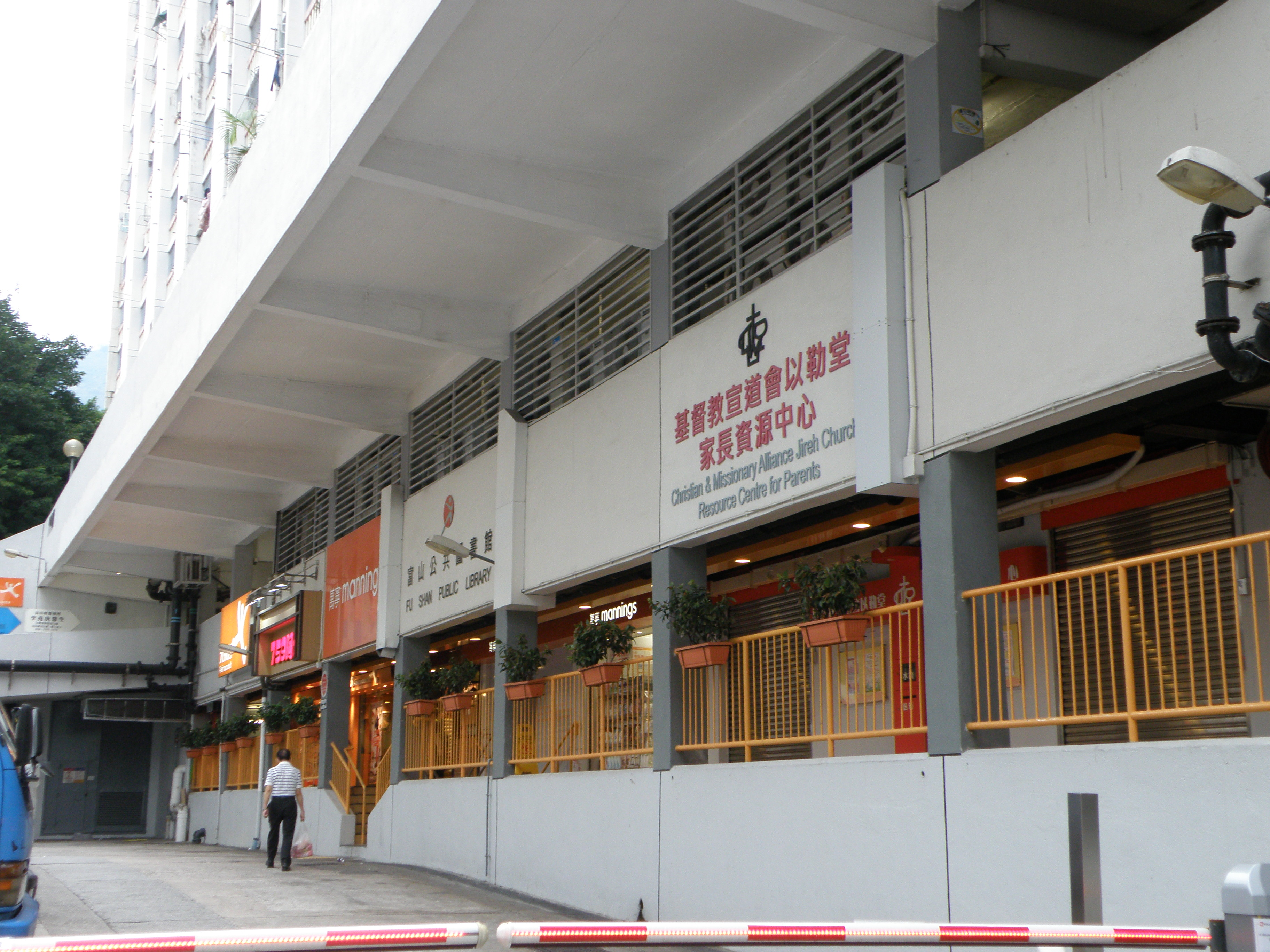 Shops in Fu Shan Estate Fu Yan House, Fu Shan, Hong Kong.